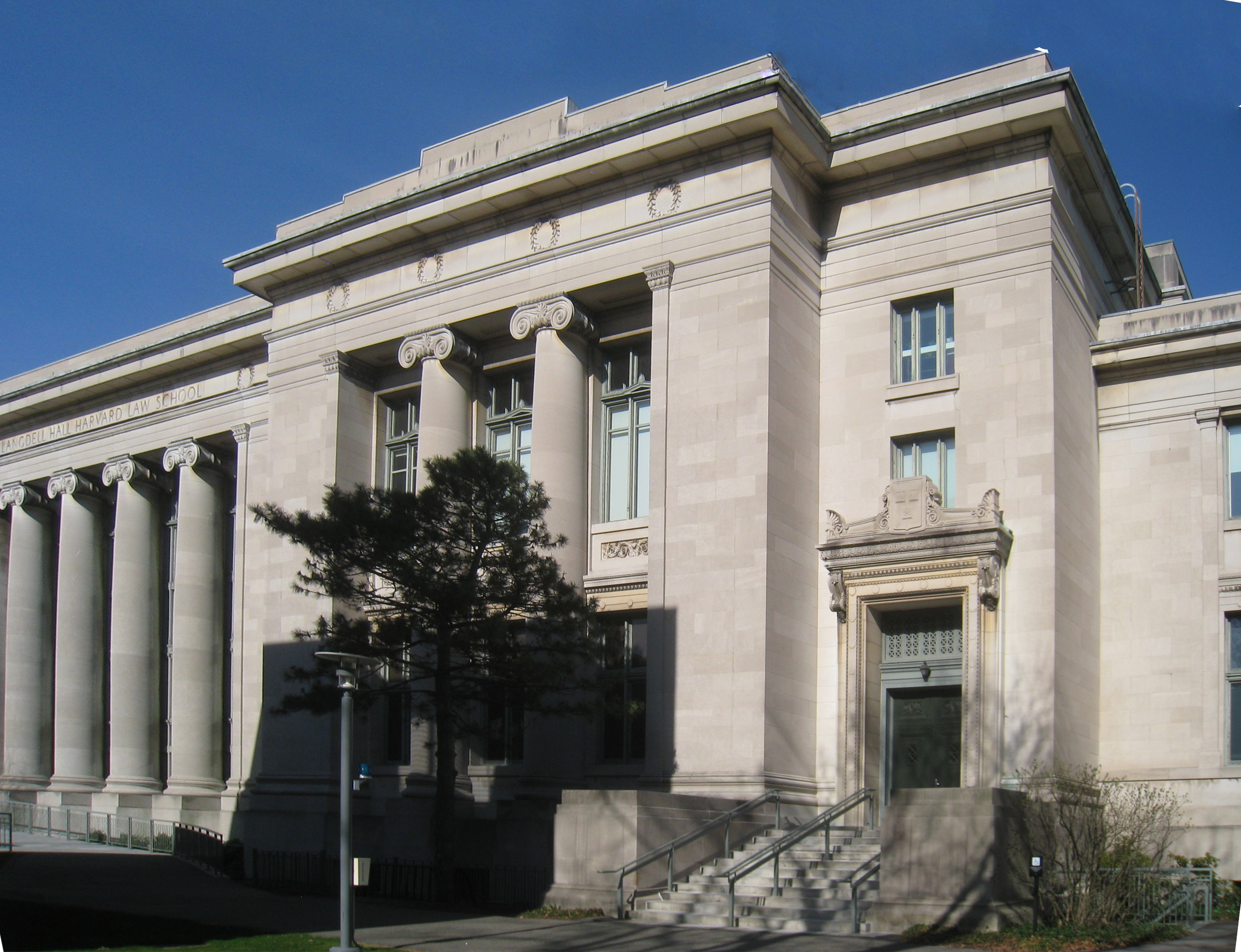 Langdell Hall, Harvard Law School, Cambridge, Massachusetts, USA.